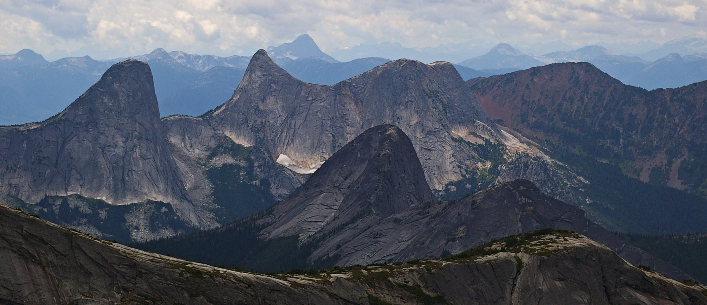 Looking west at Steinbok Peak, Ibex peak, Gemse Peak, and Anderson River Mountain. Canadian Cascades